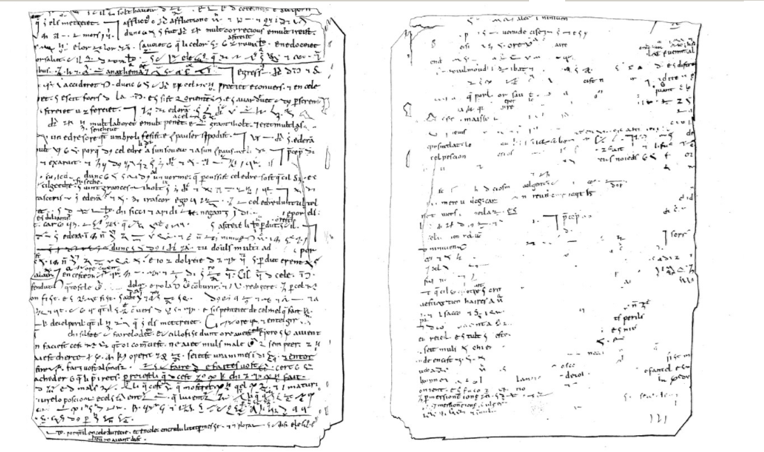 The whole of the Fragment de Valenciennes, held at the Bibliothèque municipale de Valenciennes.